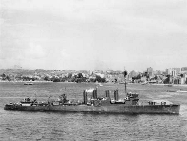 The U.S. Navy destroyer USS Whipple (DD-217) at Sydney, Australia. After escaping from the Netherlands East Indies, Whipple sailed to Melbourne, Australia, and arriving on 23 March, and operated with Australian and New Zealand Navy warships on convoy escort duties along the Great Barrier Reef until 2 May, when she departed Sydney for Pearl Harbor.